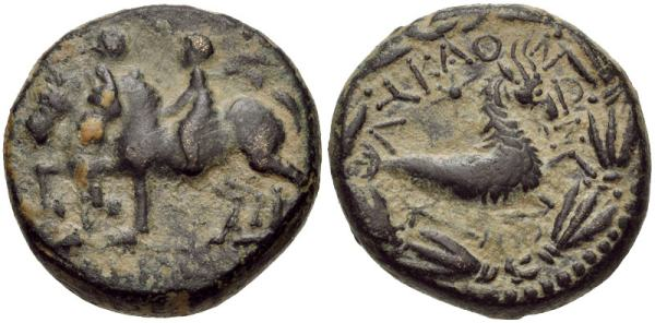 KINGS of COMMAGENE. Epiphanes & Kallinikos. AD 72. Æ 18mm (7.93 g, 1h). Laranda mint. Epiphanes and Kallinikos on horseback left Capricorn right; star above, anchor below; all within wreath. RPC I 3535 (Antiochos IV Epiphanes) = von Aulock, Lykaoniens 11 (same dies); AC